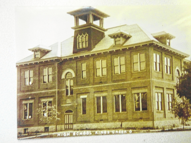 Salem High School in 1908. The current building still stands in Kingscreek, OH today.